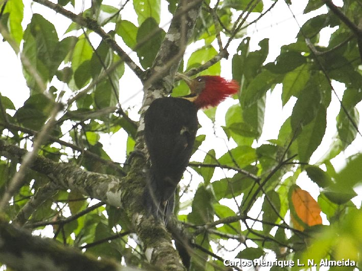 Dryocopus galeatus at Intervales State Park (Ribeirão Grande, São Paulo, Brazil)